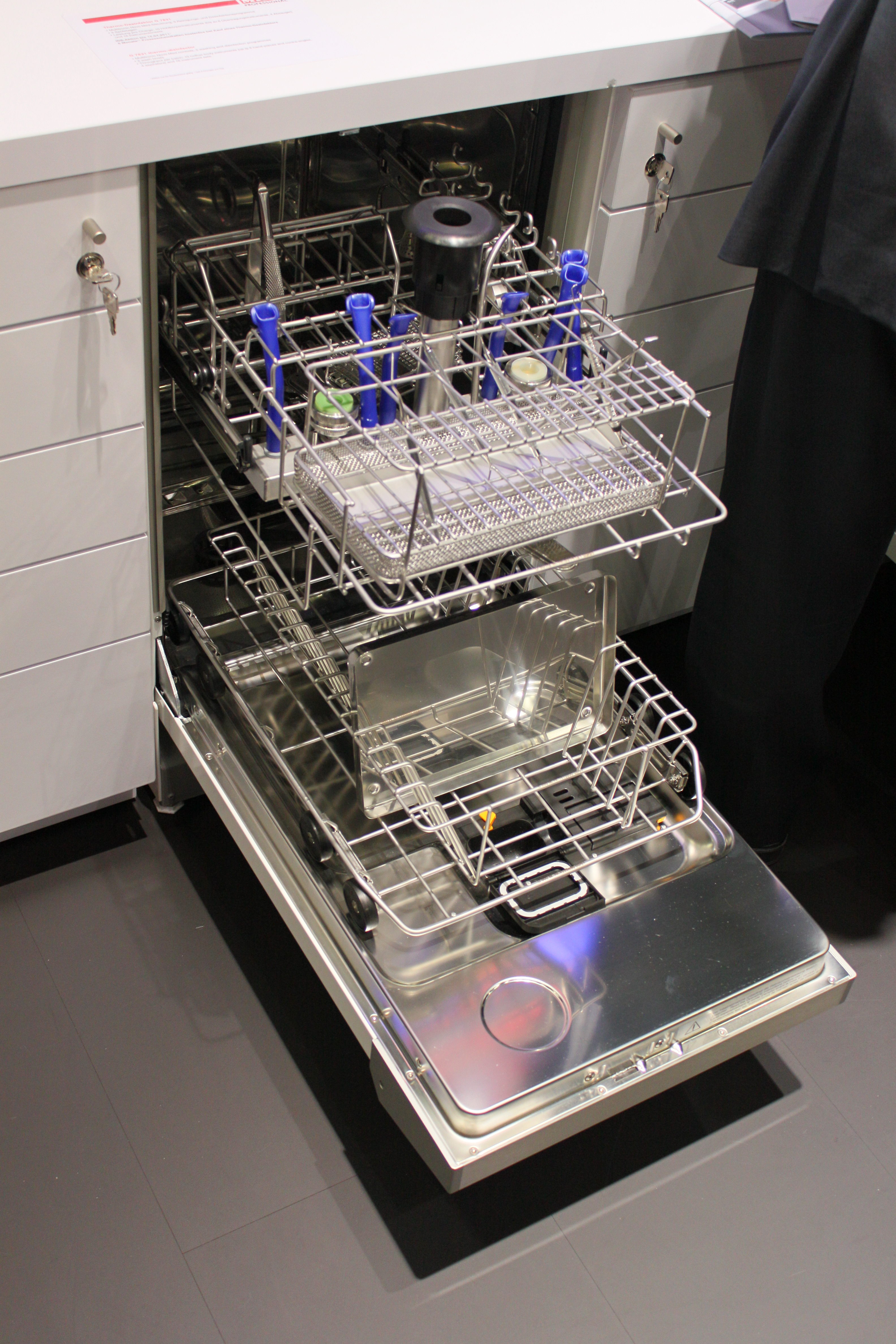 International Dental Show, Cologne, Germany